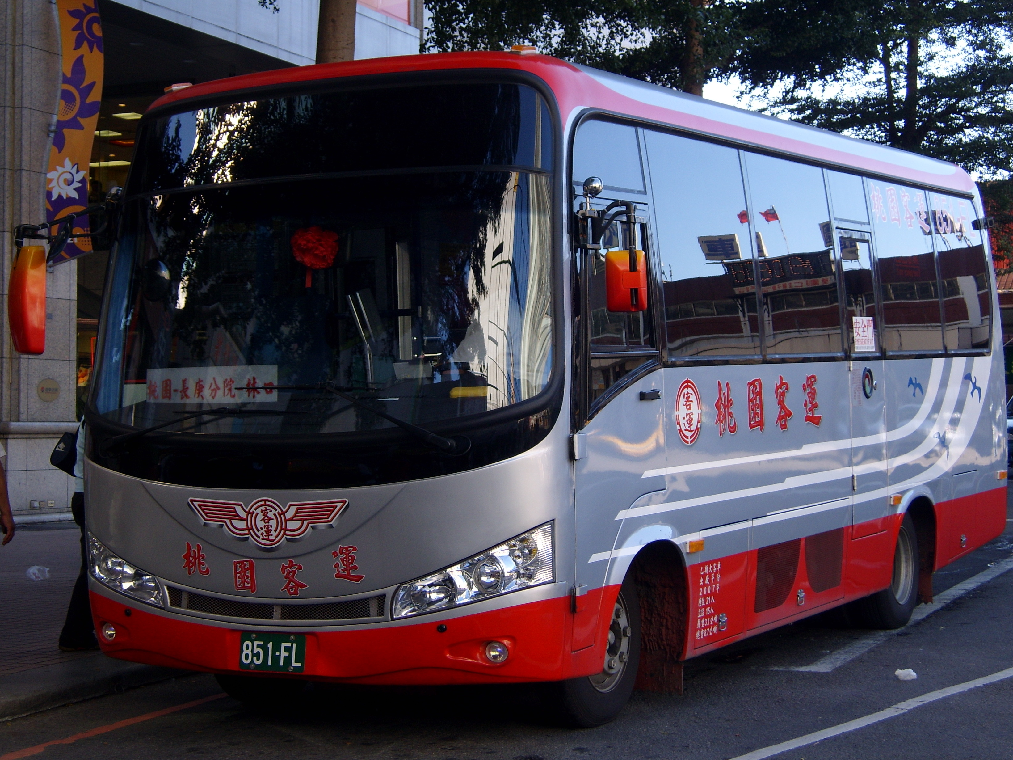 Taoyuan City Bus is imported a brand new Isuzu NQR bus at 2007.